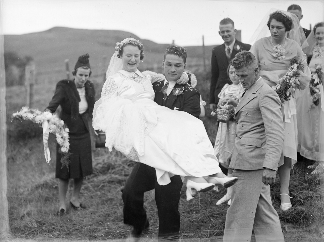 Confetti is visible on their heads and clothes. Some members of the wedding party are visible behind them. They appear to be in a field. Fence and grass in the background.